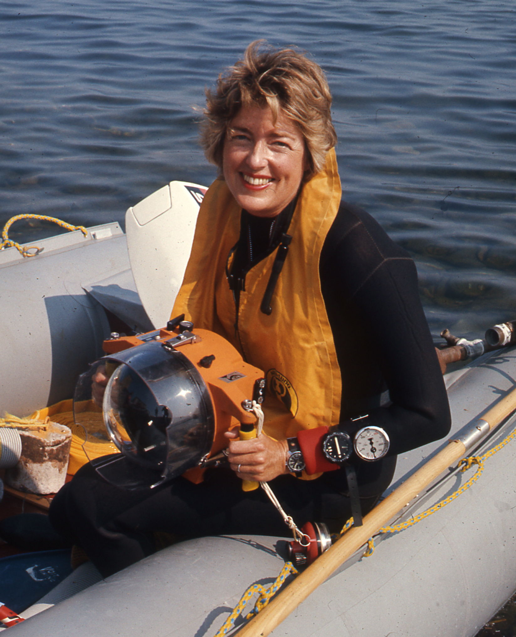 Anna Marguerite McCann, a pioneer in the field of underwater archaeology, at Populonia in 1974 (Tuscany, central Italy)